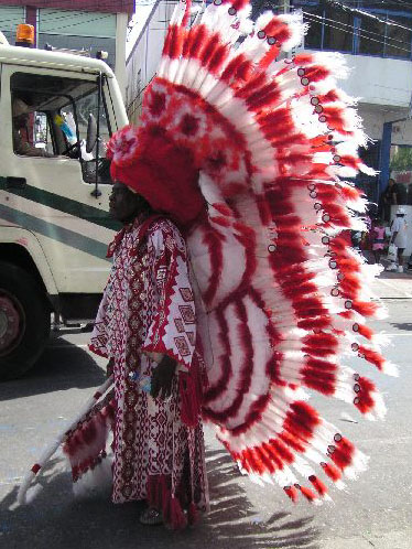 Fancy Indian character from Trinidad and Tobago Carnival, San Fernando, February 28, 2006.